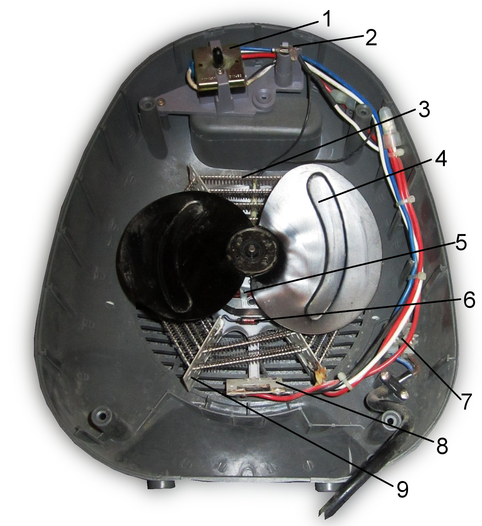 electrical room heater, Selection Switch Operation Indicator Resitive Heating Element Propeller Motor Overtemperature Fuse Connecting terminal Overtemperature Switch Mica made helical heating element support